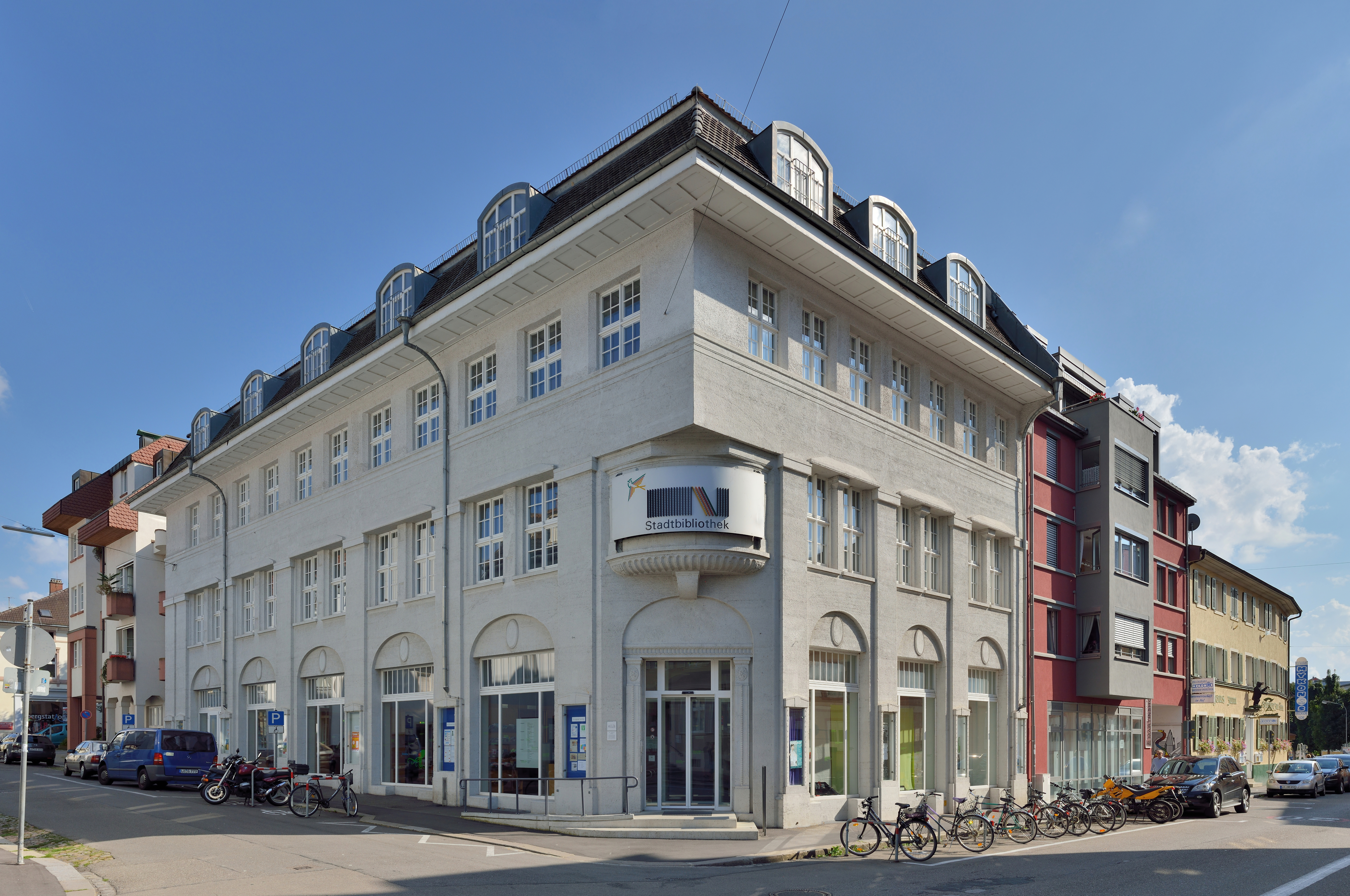 Lörrach: library